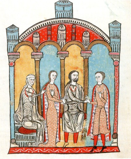 From the Liber feudorum maior - Miniature that represents a marriage commitment. In it, Viscount Bernard Anton of Beziers, sitting, is about to give the hand of his daughter Ermengarda to that of the future Gaufred III of Roussillon, both of them standing, in the presence of his wife Cecilia, who is sitting. The fortress-like scenario where the event takes place is striking.